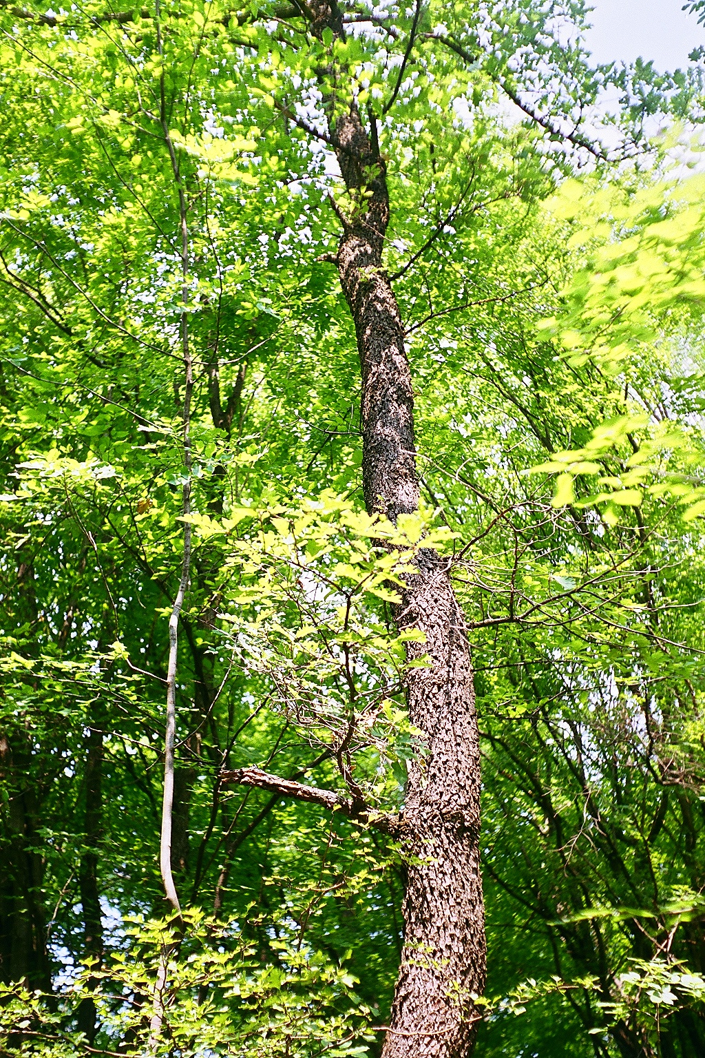 Pubescent oak growing in a closed forest near the town of Golubac in Southeastern Serbia.